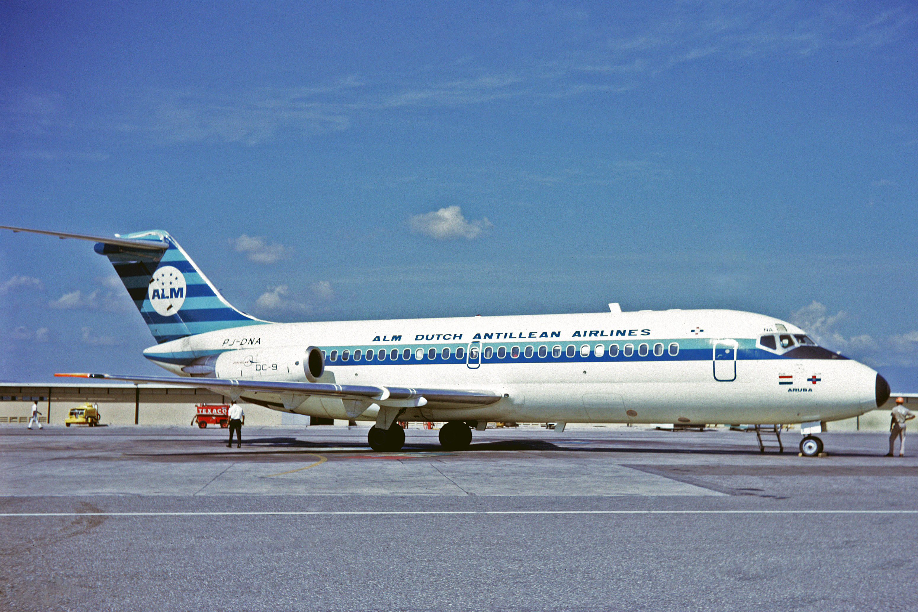 PJ-DNA Douglas DC-9-15 ALM Dutch Antillean Airlines KIN 18JAN71